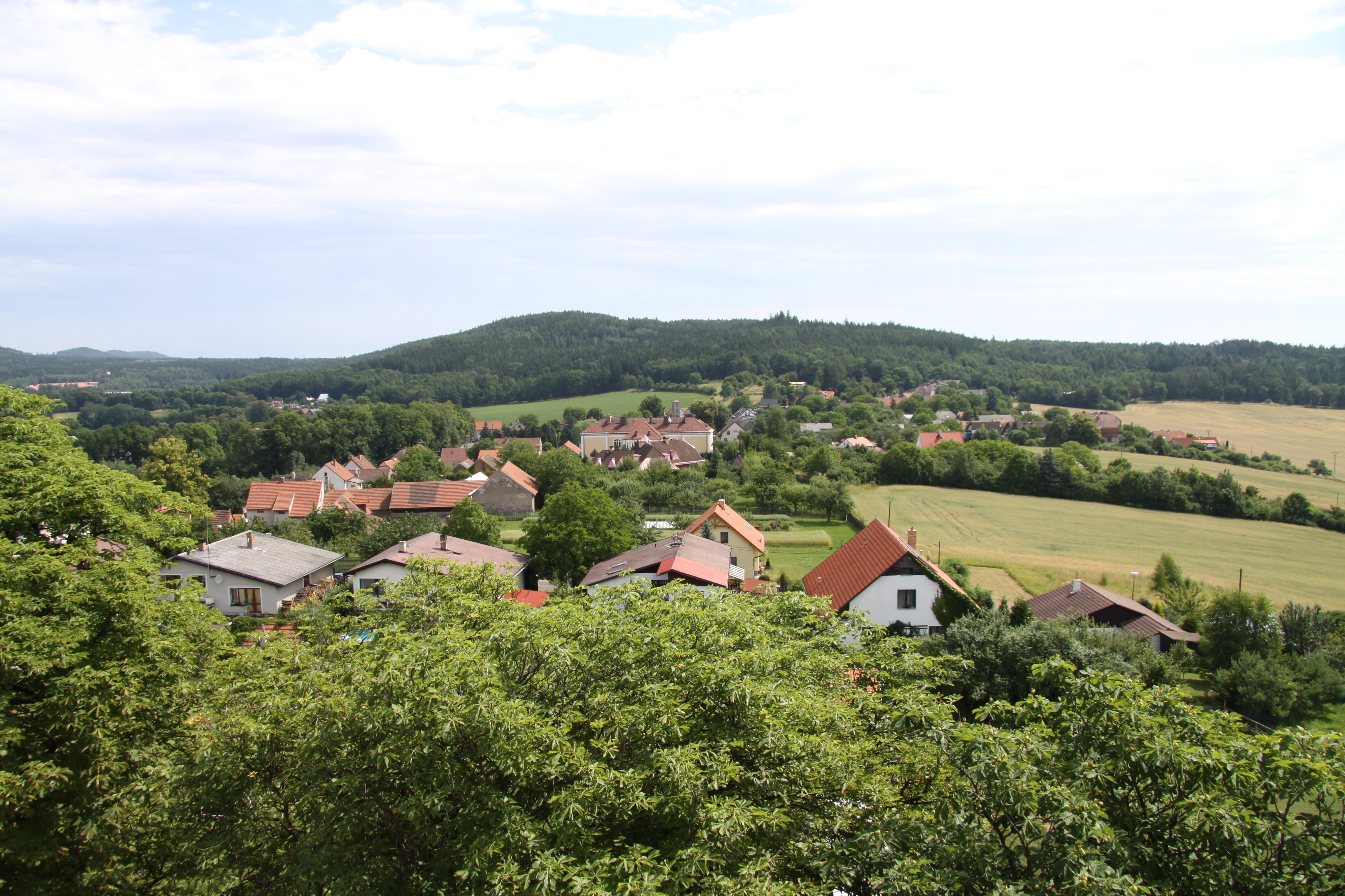 Church of Holy Trinity in Hluboš village in Příbram District, Czech Republic. View to the surrounding landscape